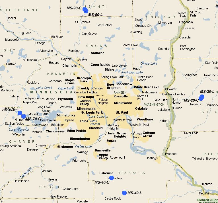 Minneapolis-St Paul Defense Area Nike Missile Sites